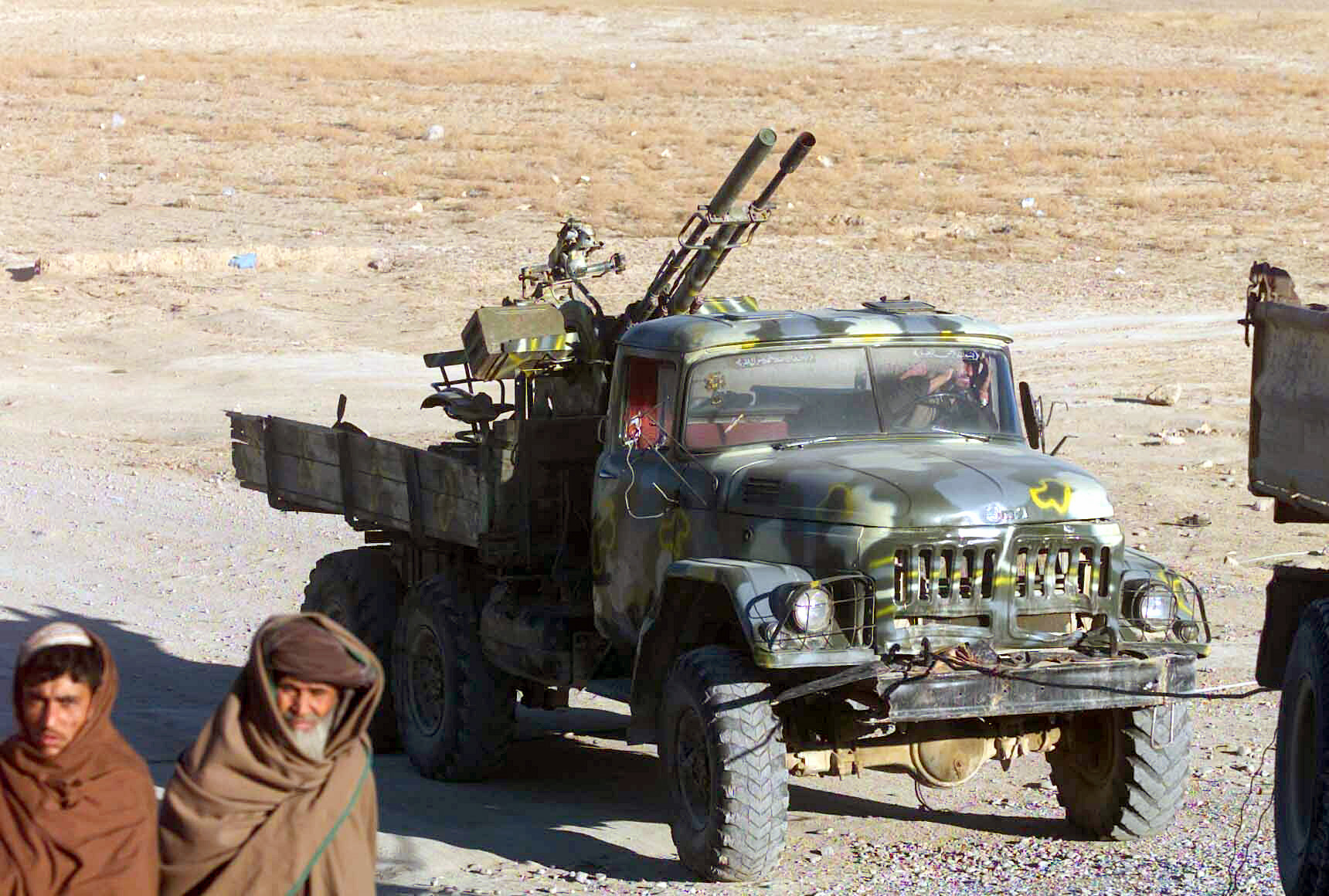 A Zil-131 cargo truck with a ZU-23-2 antiaircraft gun near the Kandahar International Airport in 2002.